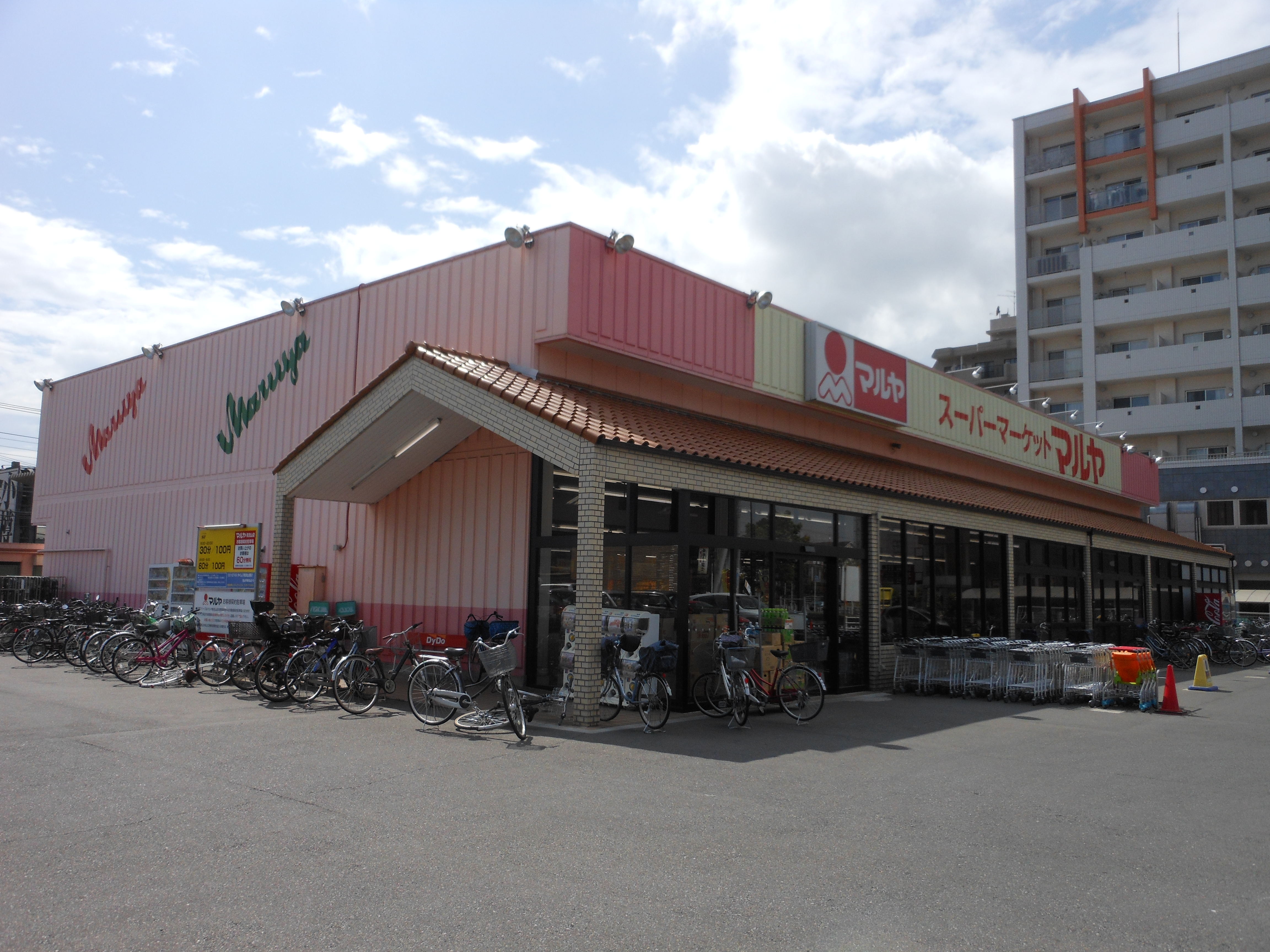 This is the Minaminagareyama Shop of Maruya, a supermarket in Nagareyama, Chiba, Japan.